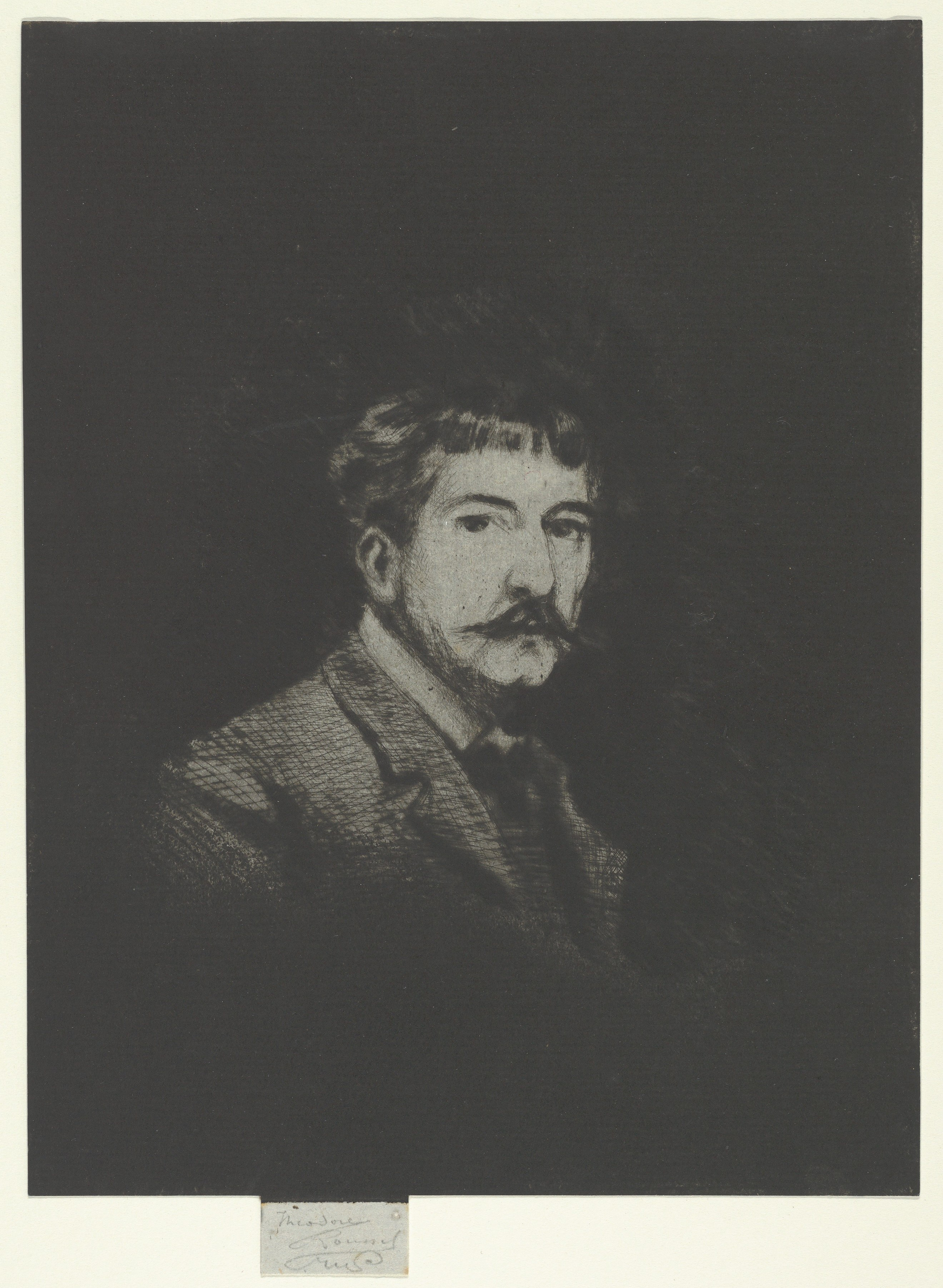 Print; Prints